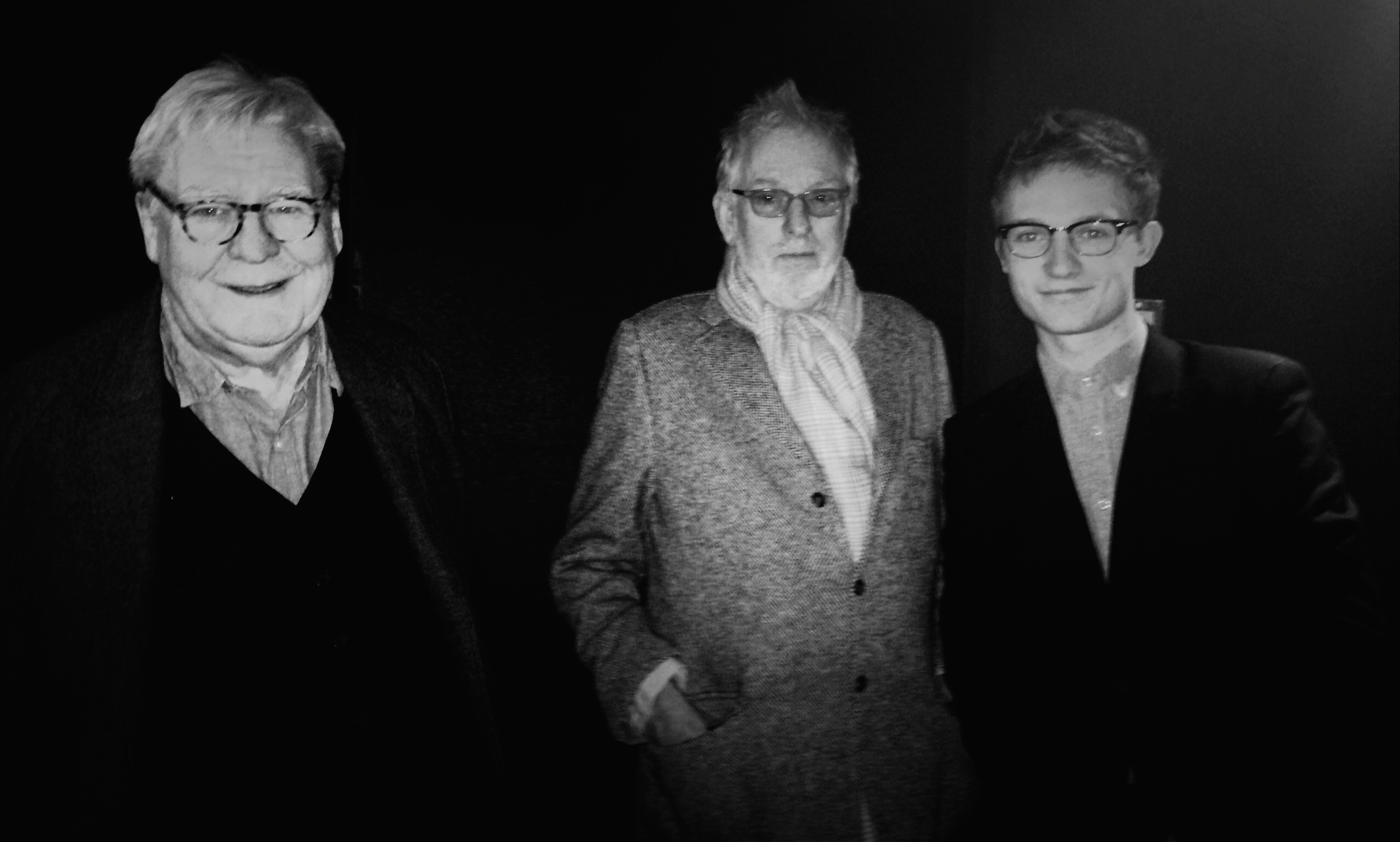 Directors Alan parker, Hugh Hudson and Léolo Victor-Pujebet.